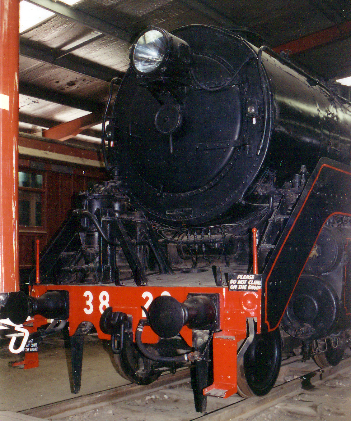 New South Wales Government Railways 38 class locomotive 3820, at the New South Wales Rail Transport Museum, Thirlmere, circa 1991.